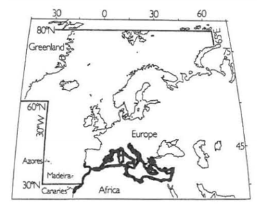 Verbreitung